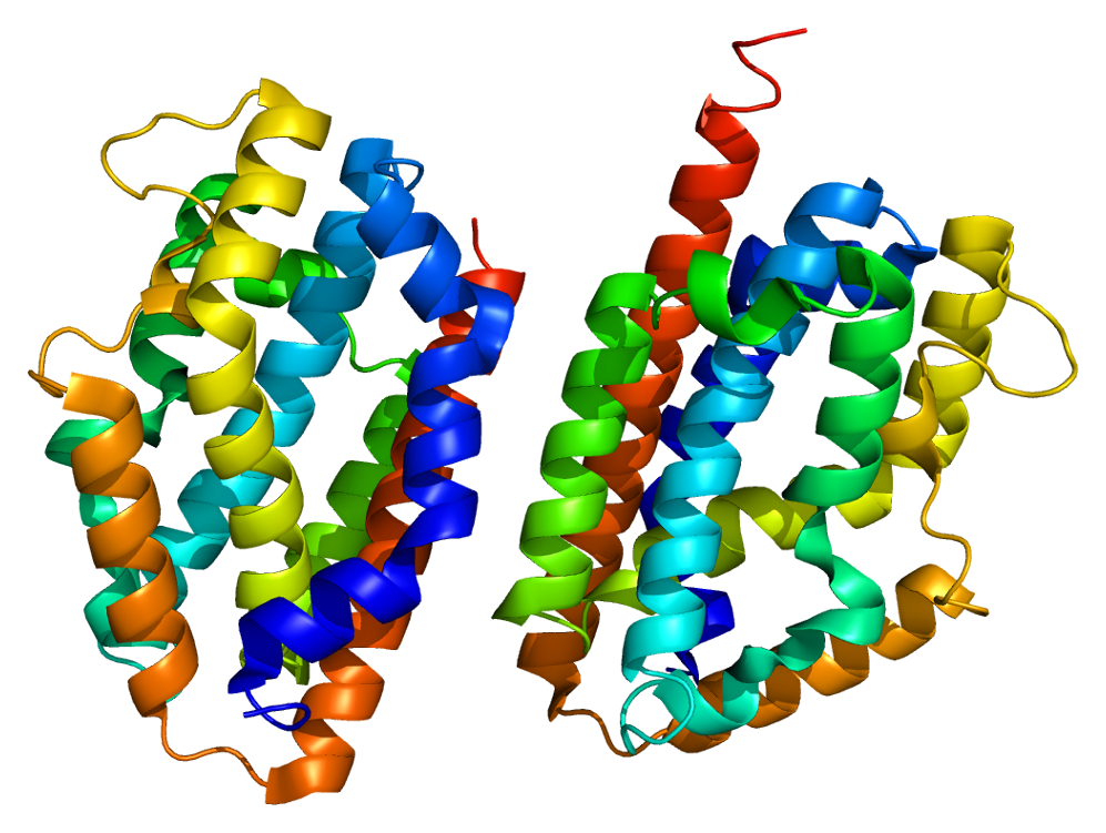 Structure of the HMOX2 protein. Based on PyMOL rendering of PDB 2q32.